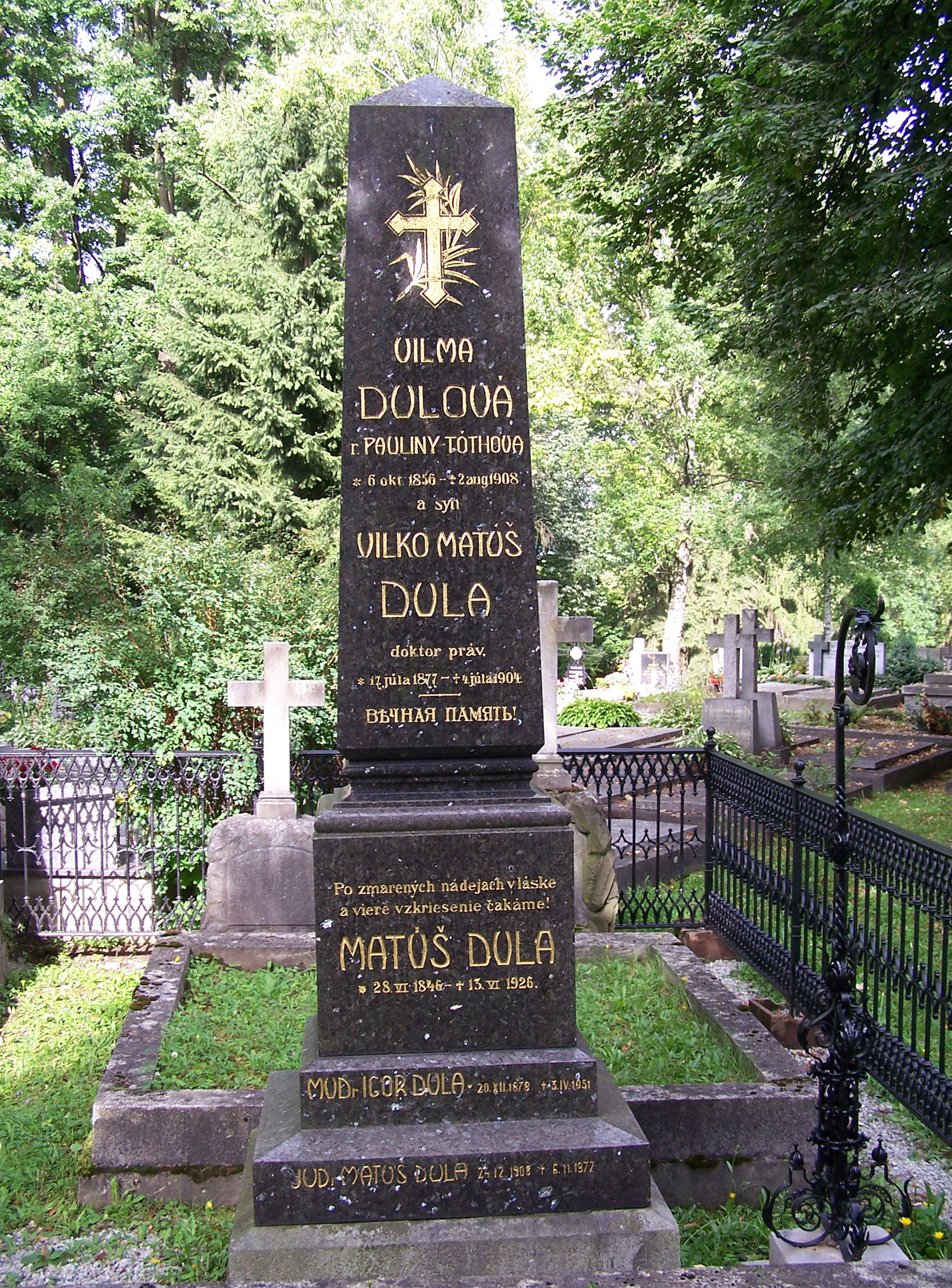 Grave of Matúš Dula at the National Cemetery in Martin, Slovakia